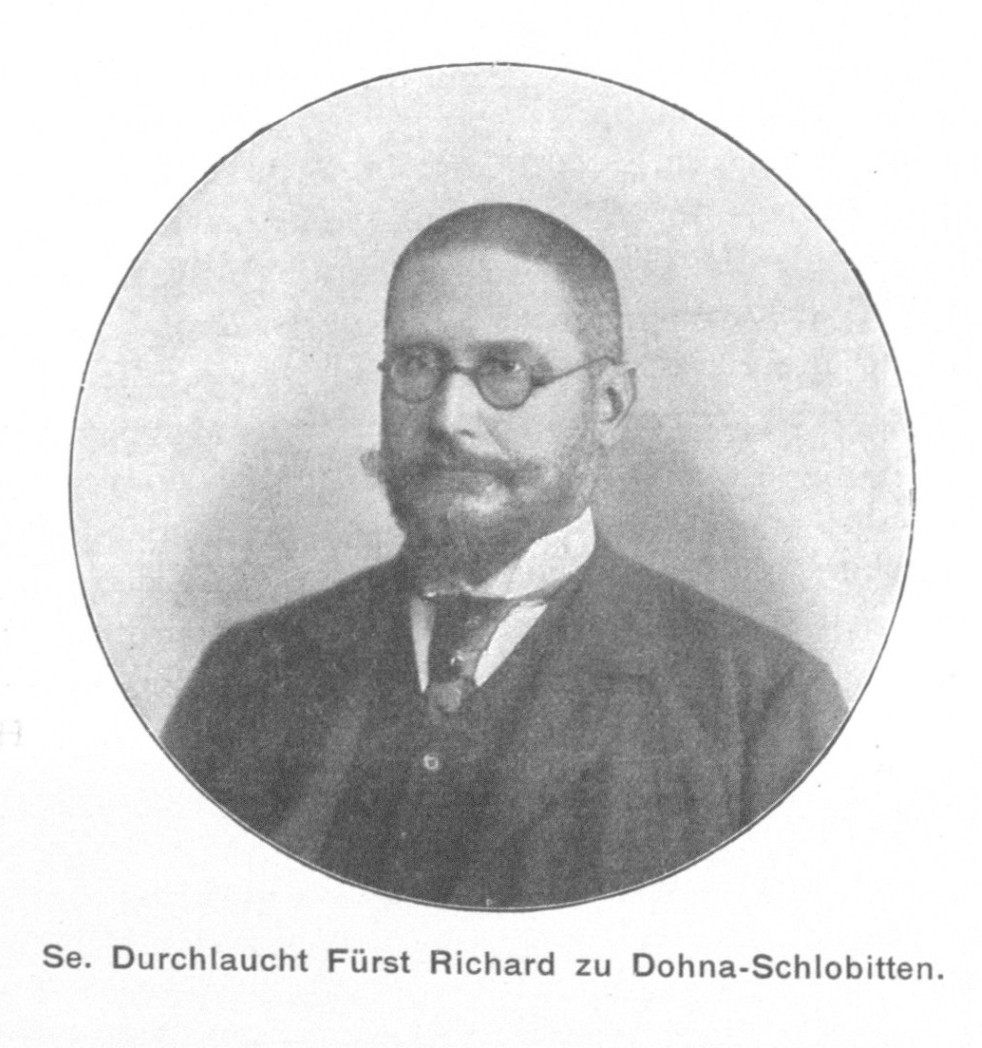 Portrait of Richard zu Dohna-Schlobitten (1843-1916), Prussian nobleman